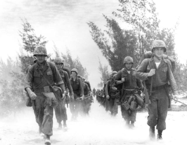 Beach activity at Da Nang, Vietnam during landing of United States Marines of the 9th Marine Expeditionary Brigade in March of 1965.